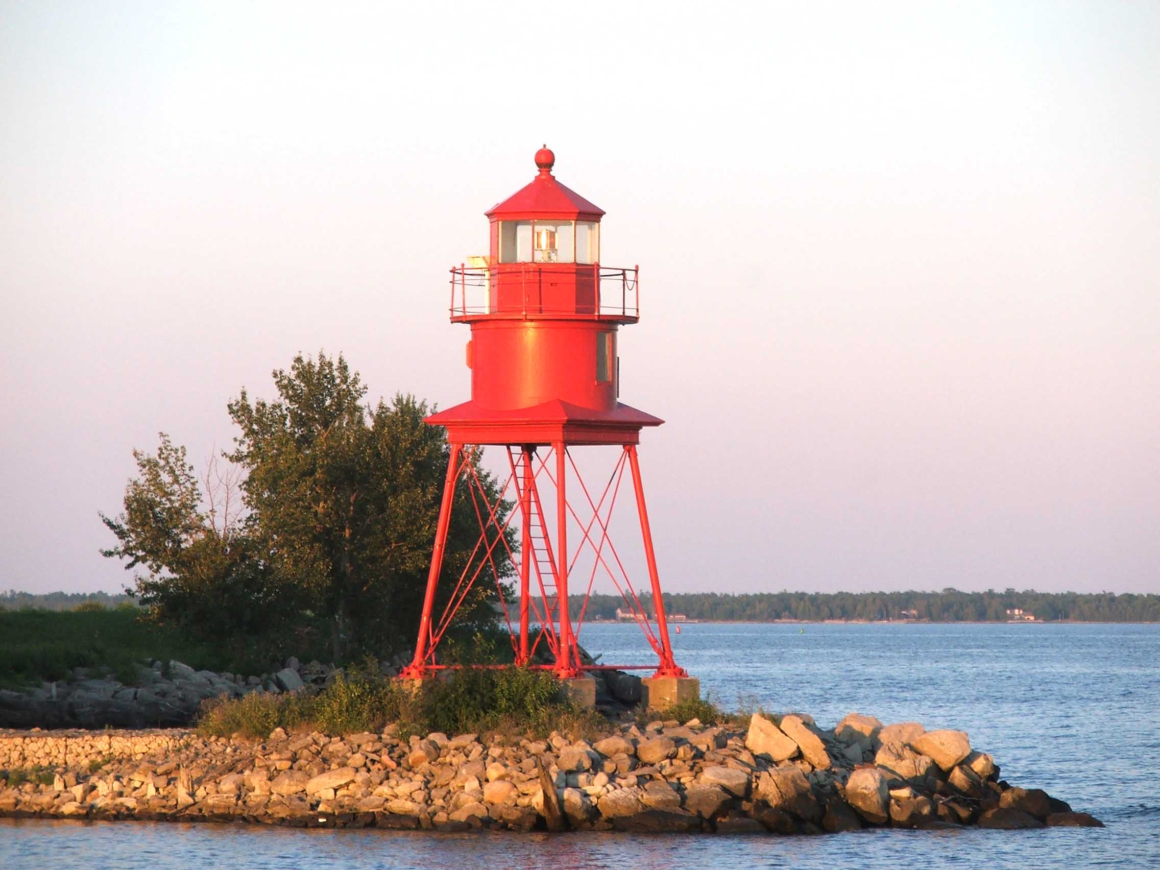 Lighthouse at the Alpena Marina